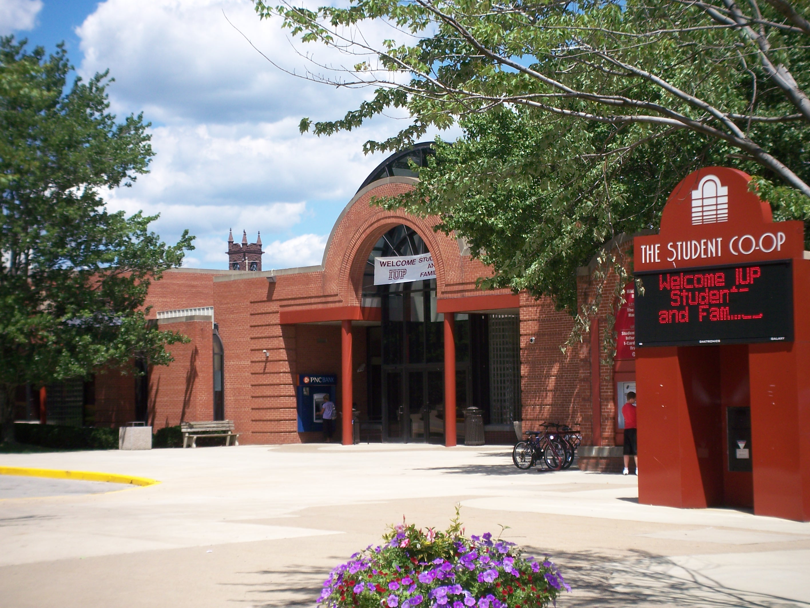 Main Entrance, Hadley Union Building (HUB) at Indiana University of Pennsylvania (IUP) in Indiana, Pennsylvania